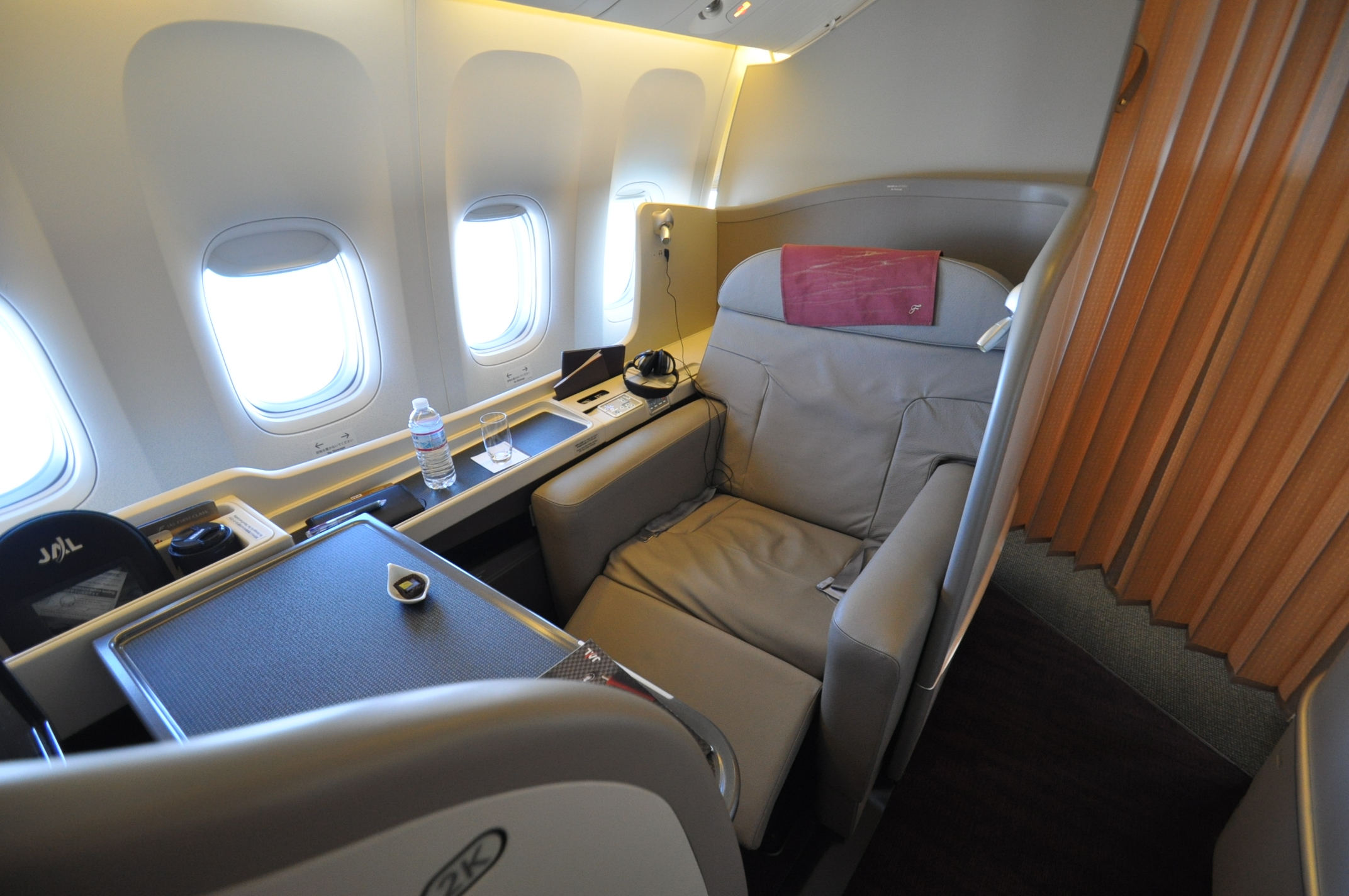 Japan Airlines international flight first-class seat｢SUITE｣.Equipped with Boeing 777-300ER